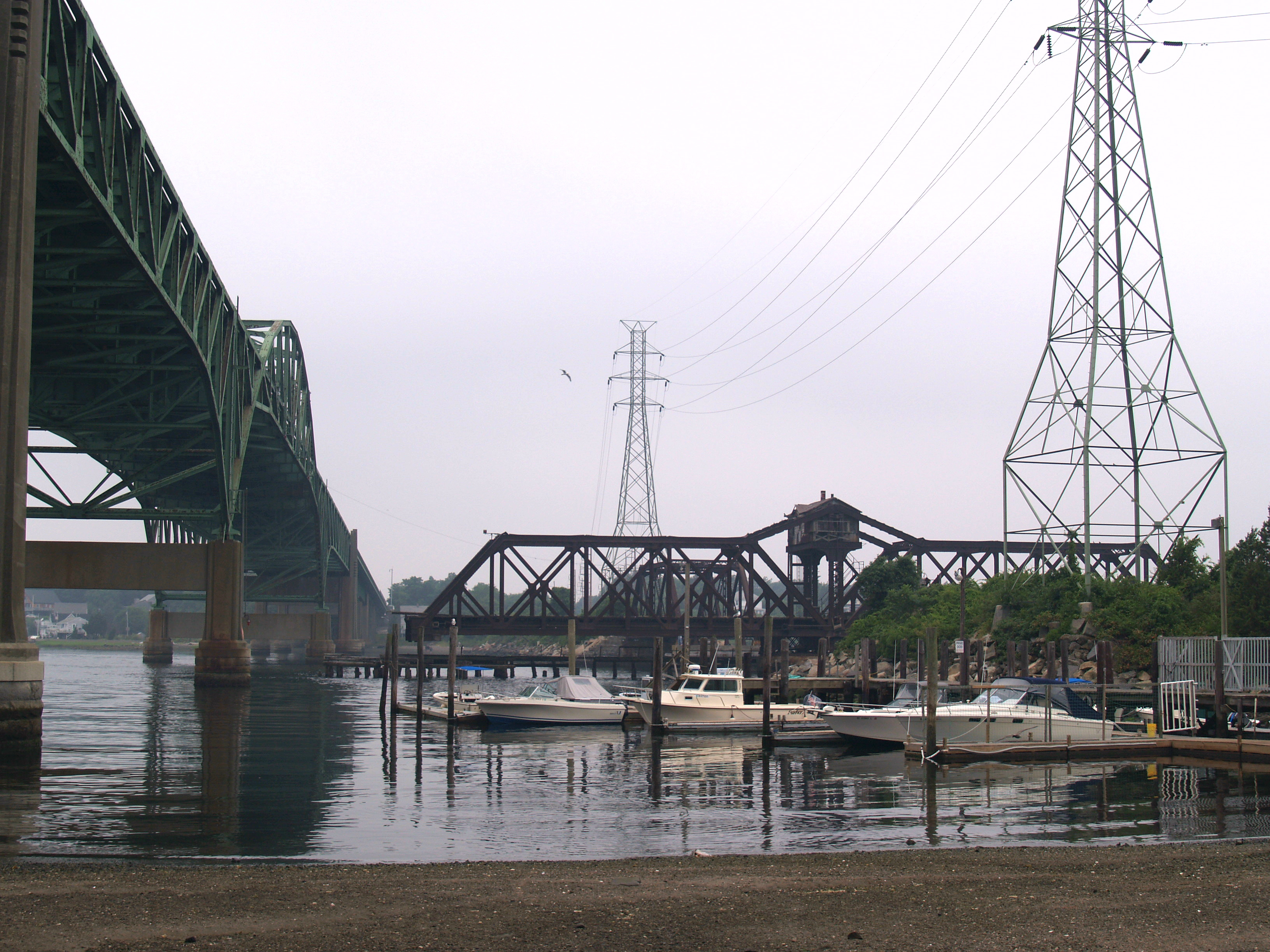 Sakonnet Rail Bridge (2005). It has since been demolished. Tiverton, Rhode Island